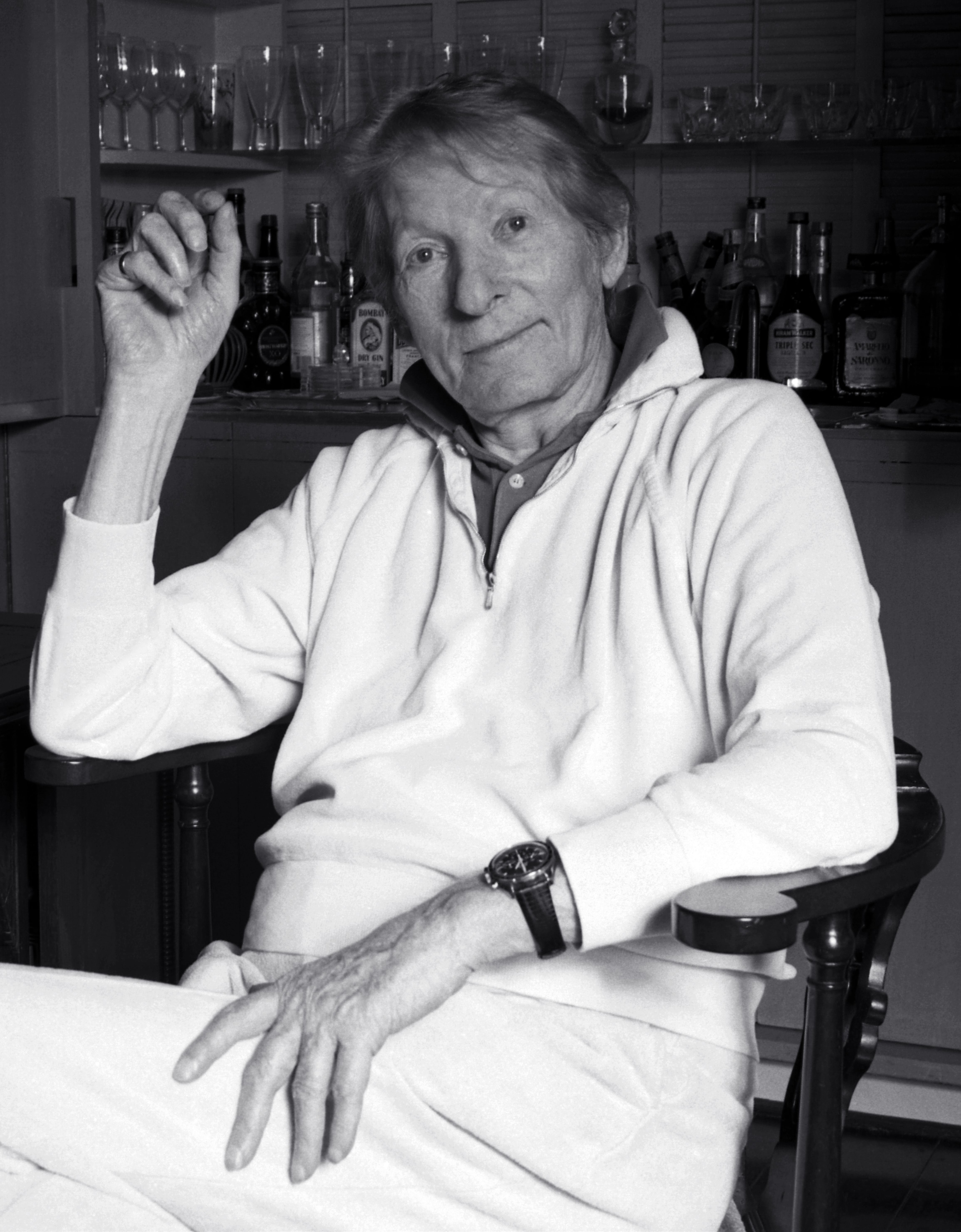 Danny Kaye taken in his home in Beverly Hills, California